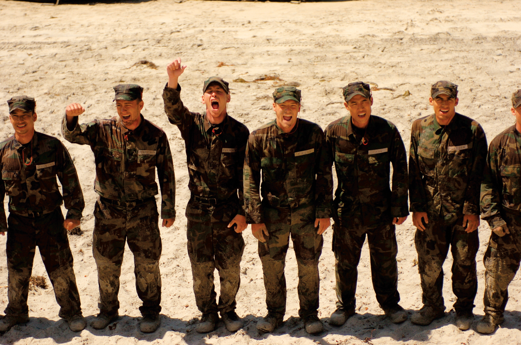 040423-N-6967M-095 Facing the waves ready to be marched back out into the surf students are ordered "About Face" they turn to see all their instructors, the commanding officer and the American flag. It takes a moment to for them the realize they have made it through Hell Week. (All Hands, August 2004, pg. 19) Photo by Photographer's Mate 1st Class (AW) Shane T. McCoy. (RELEASED)